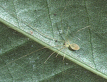 female Spermophora junkoae from Okinawa.